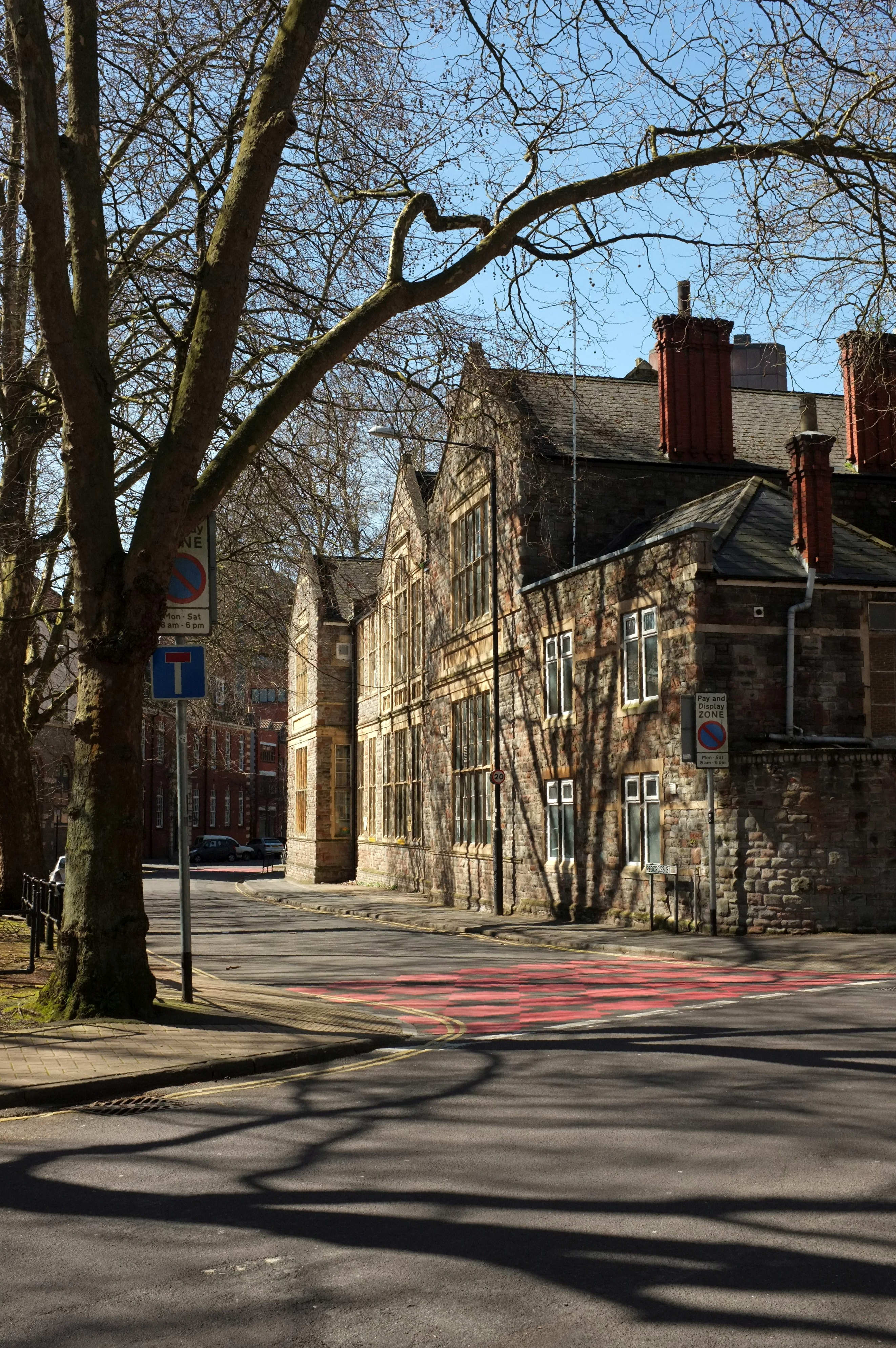 Andalusia Academy, St Philips, Bristol